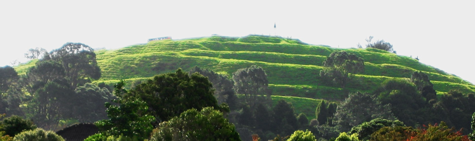 Terraces visible on the south slopes of Mt Eden, Auckland.